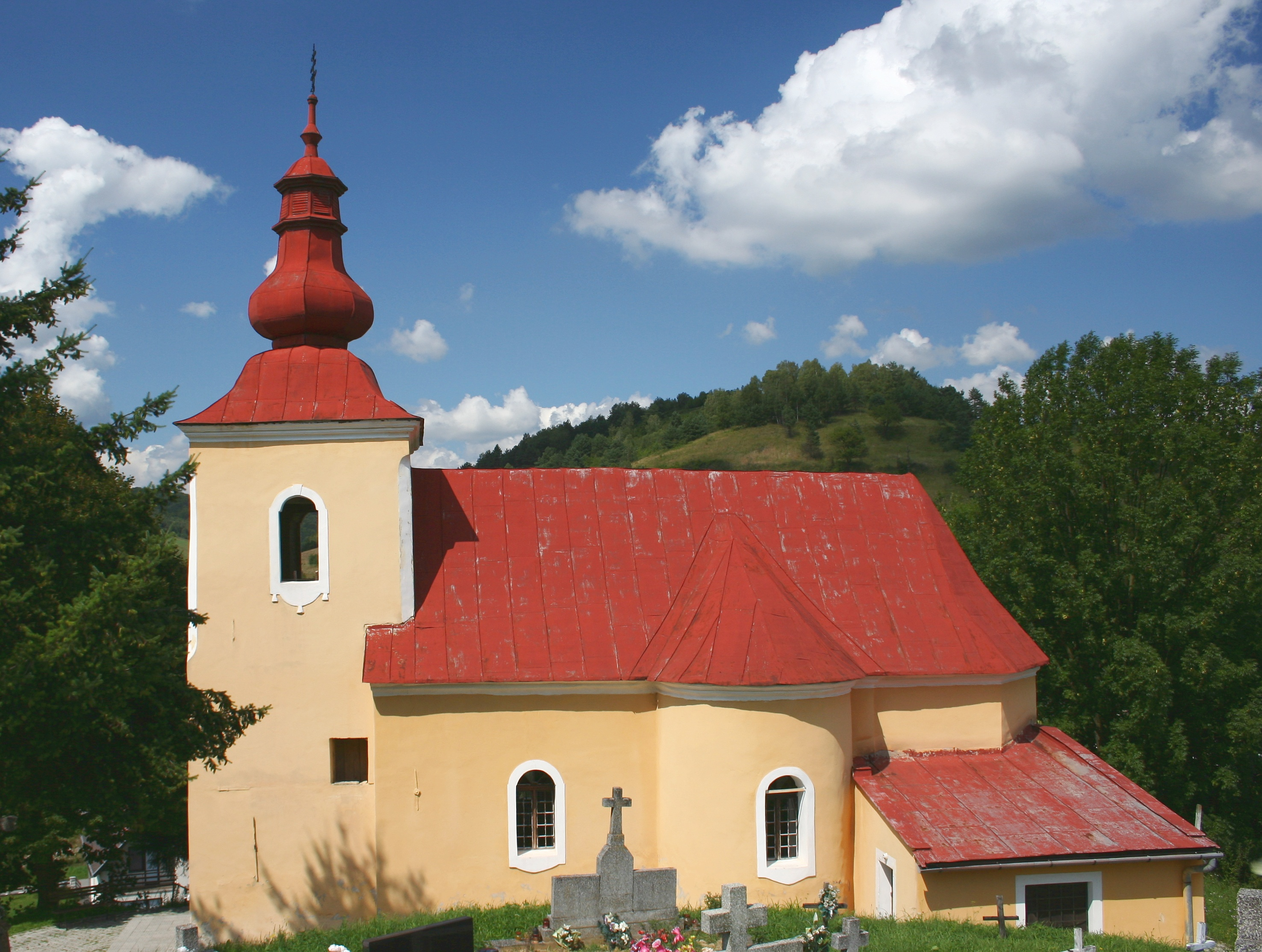 cerkiew in Matiaška, village in Slovakia